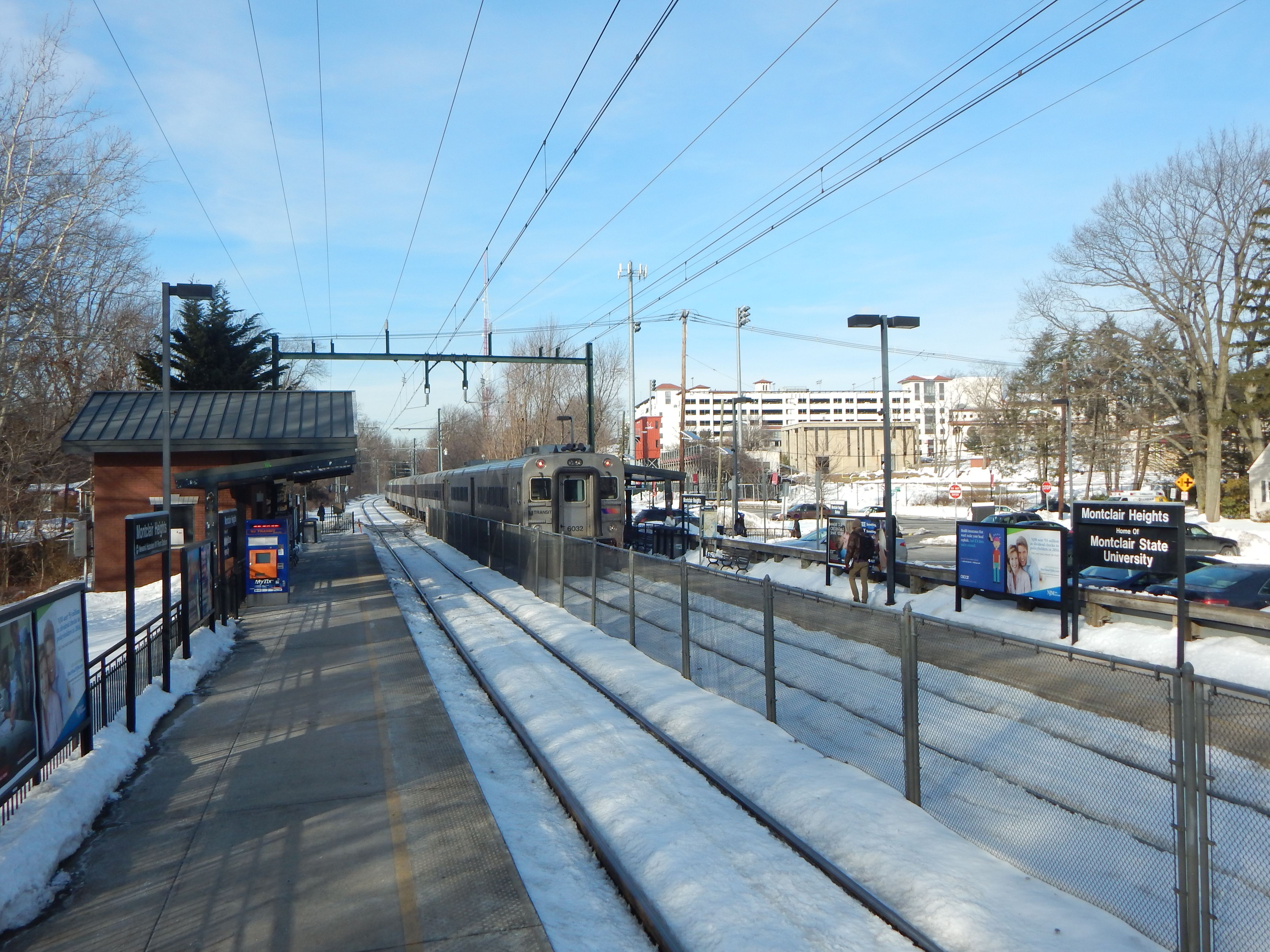 The 3:39 PM westbound train departing Montclair Heights station in February 2015.